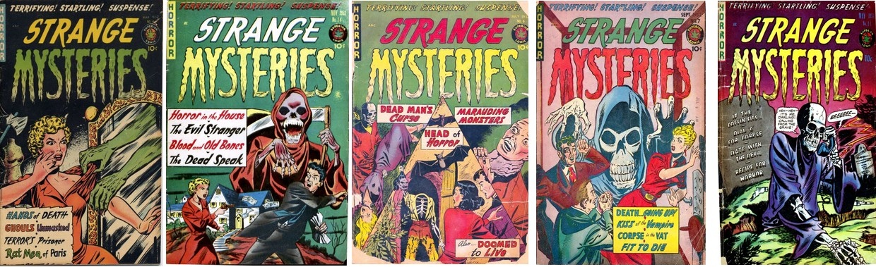 This is the image of five covers of the comic book Strange Mysteries (4, 14, 6, 7 and 11 )